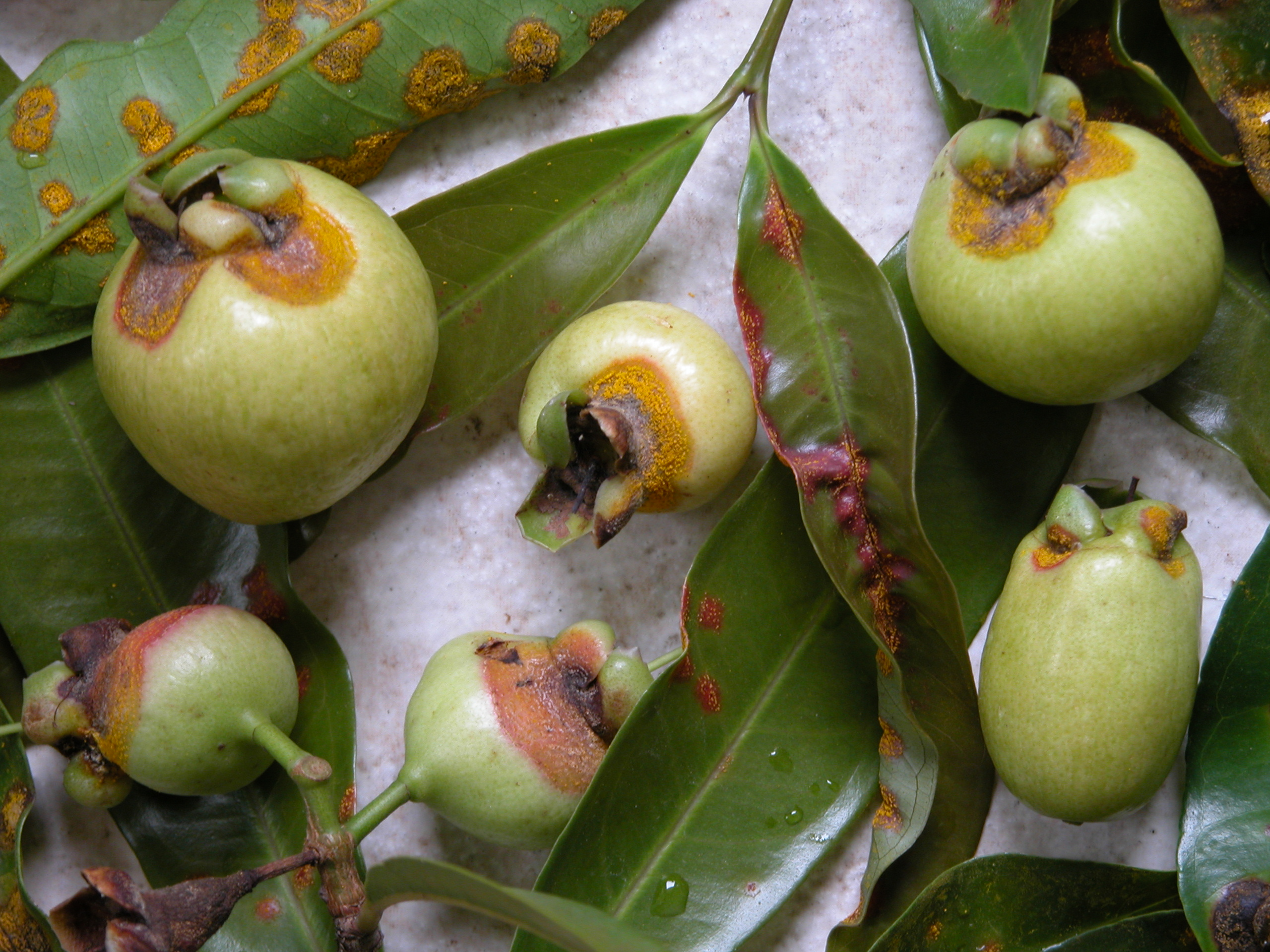 Fruits infected and deformed by Neotropical Rust (Puccinia psidii) from a Rose Apple (Syzygium jambos) tree in Ghosh Grove, Rockledge, Florida.